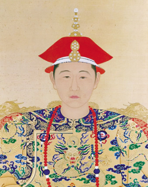 Young Kangxi Emperor, age about 20.